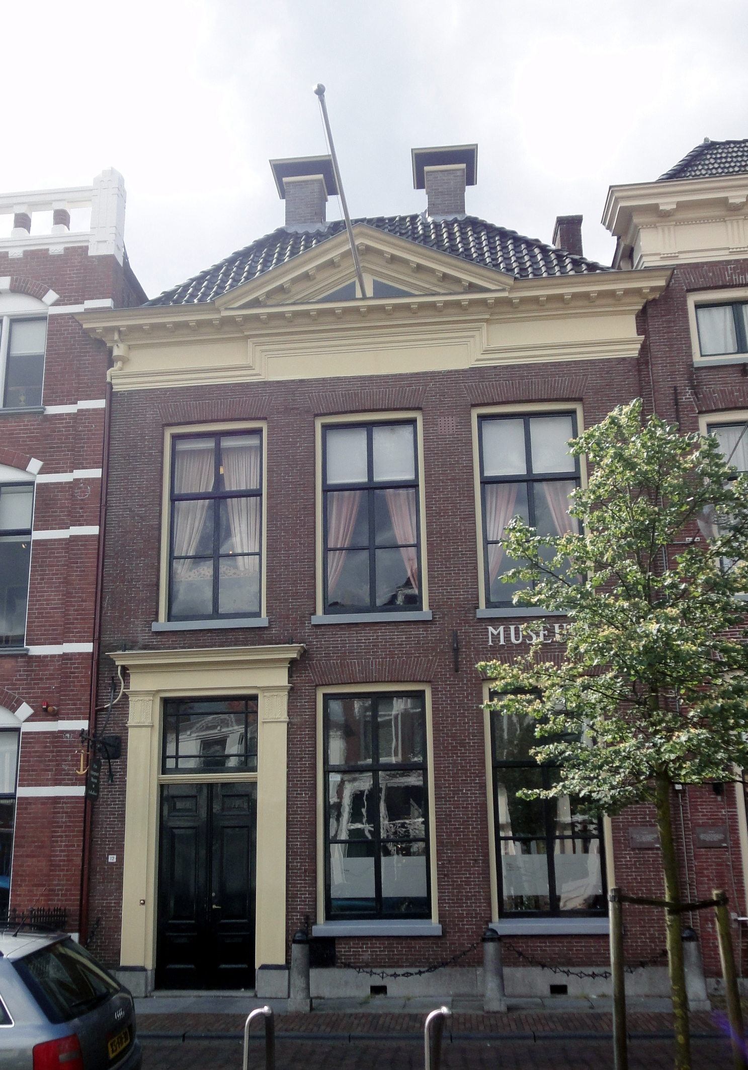 Fries Scheepvaart Museum